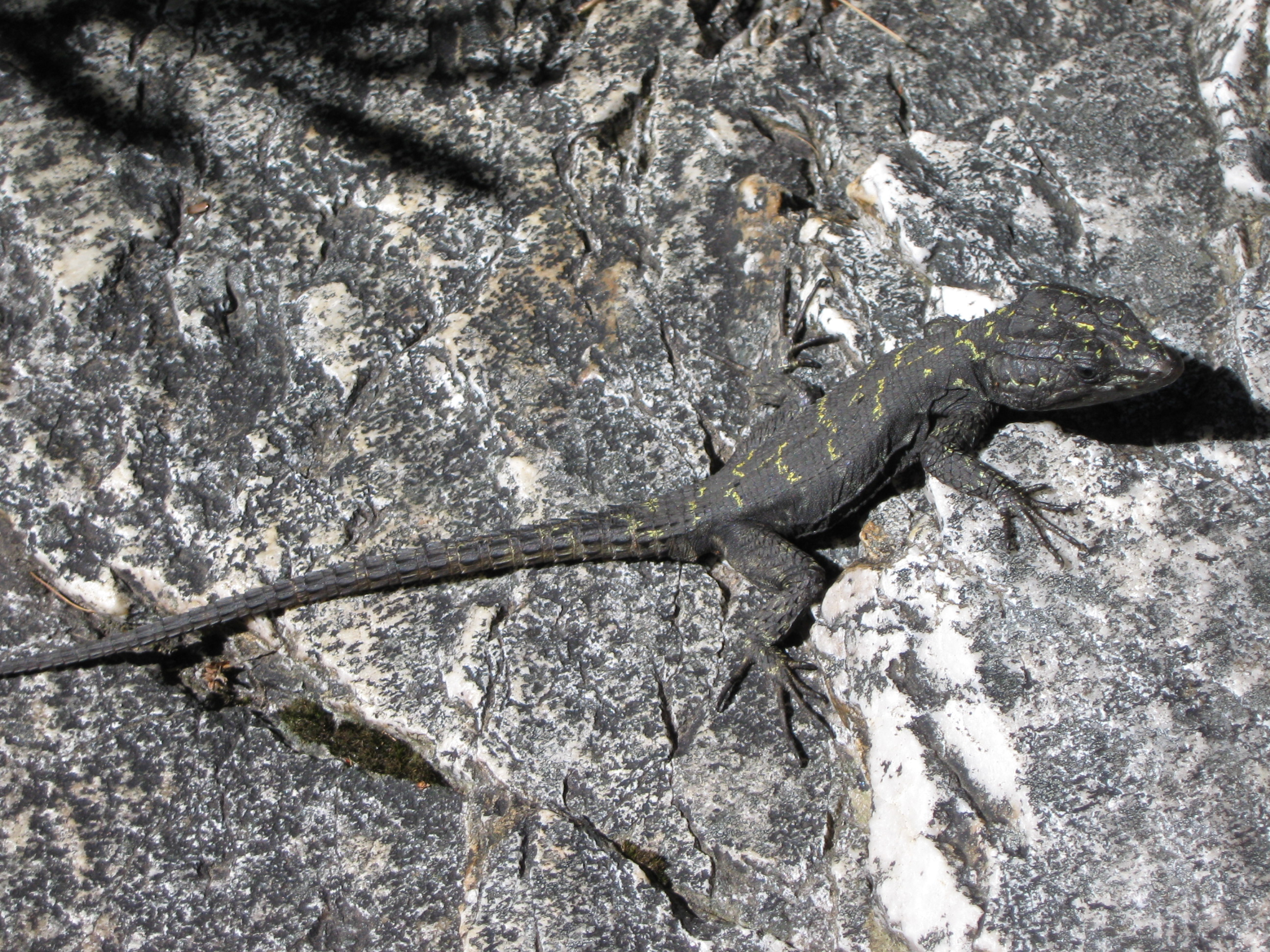 A False girdled lizard at the Hottentots-Holland mountains, Western Cape, South Africa